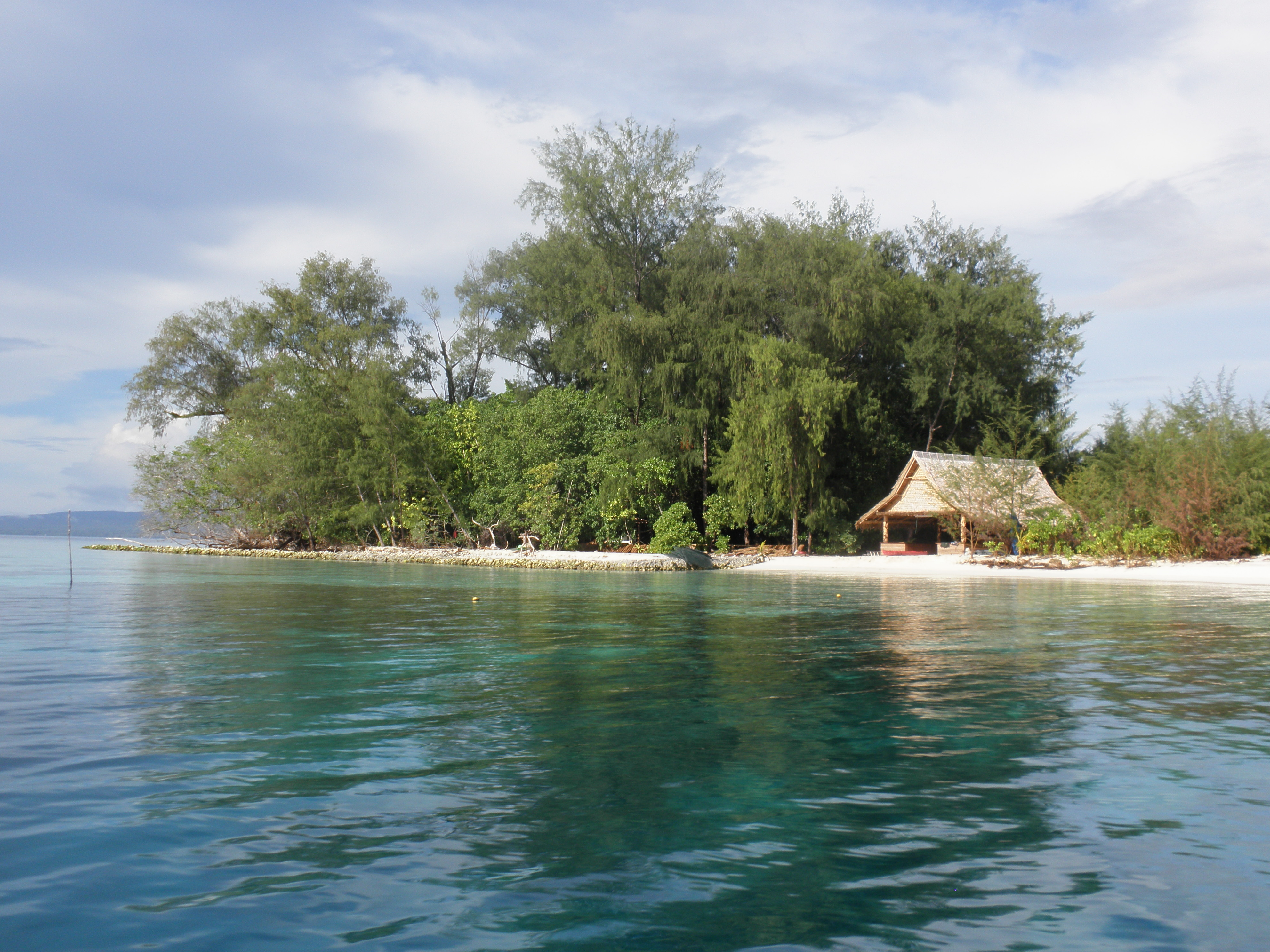 Kennedy Island (colloquially known as Plum Pudding Island though the correct local name is Kasolo Island) is an island in the Solomon Islands that was named after John F. Kennedy.